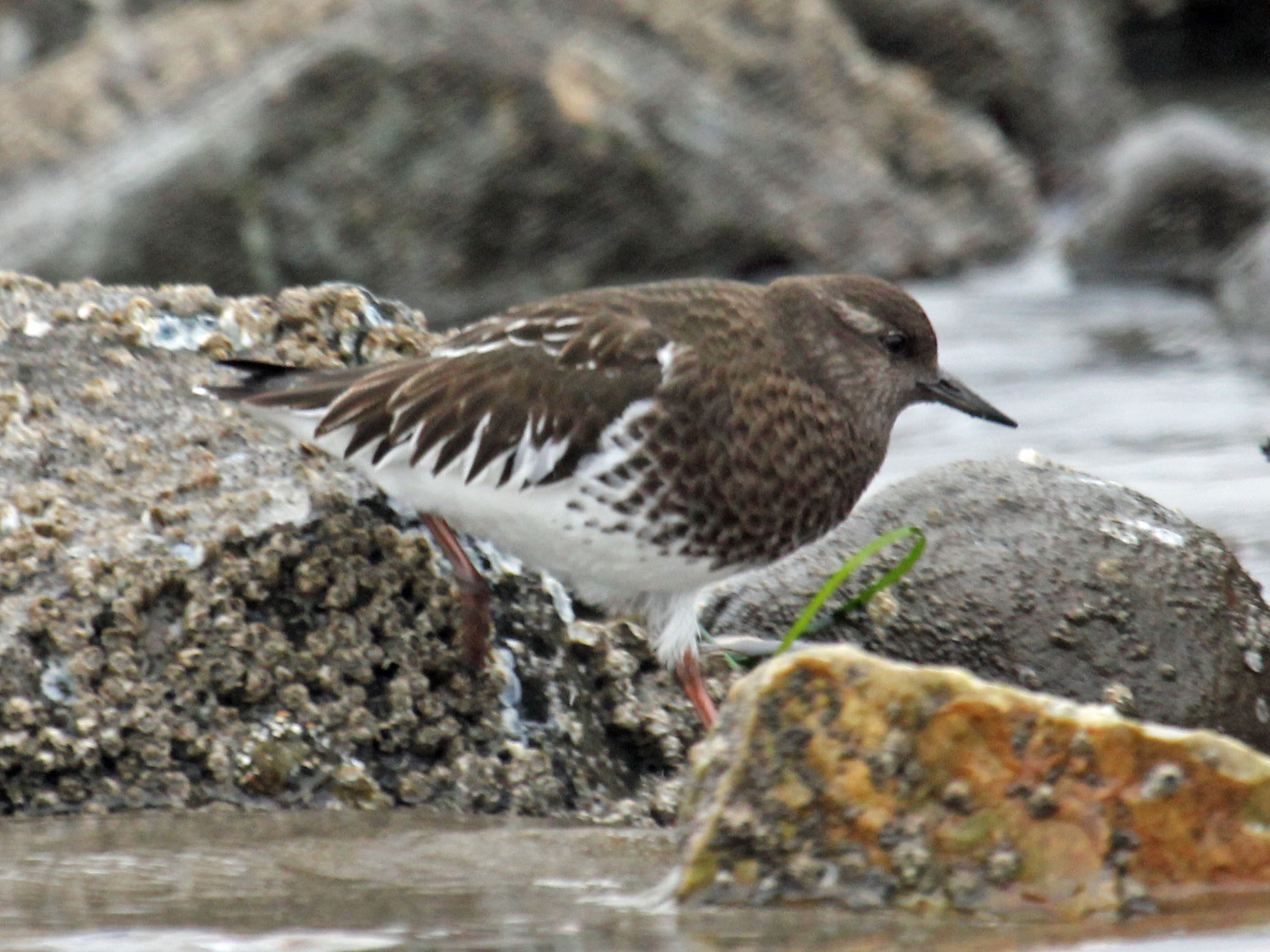 Black Turnstone (Arenaria melanocephala) - Half Moon Bay, California